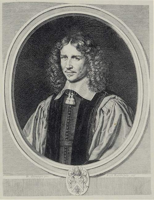 "Portrait de Denis Talon"